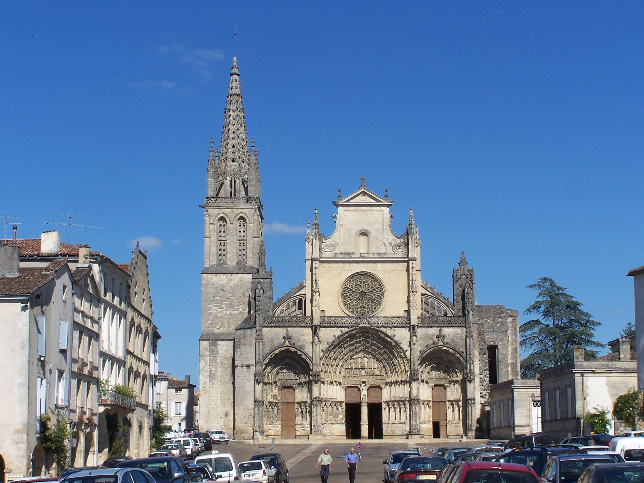 Cathedral of Bazas (Gironde, France)